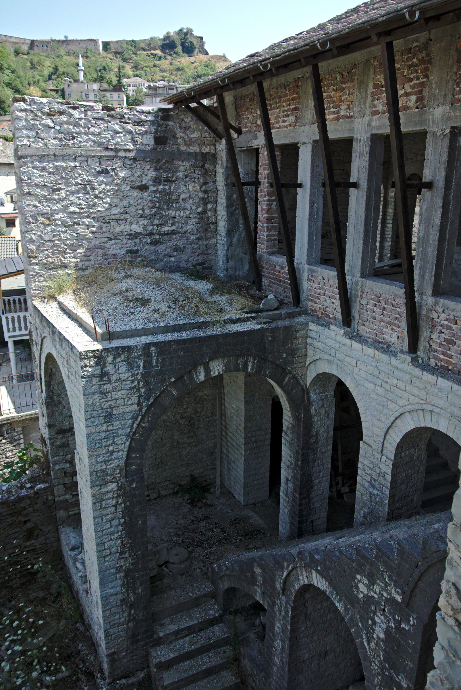 The house in Gjirokastër formerly belonging to Ismail Kadare and his family being in an unfinished state of reconstruction. View from bedroom at staircase, minaret and castle. jpg)